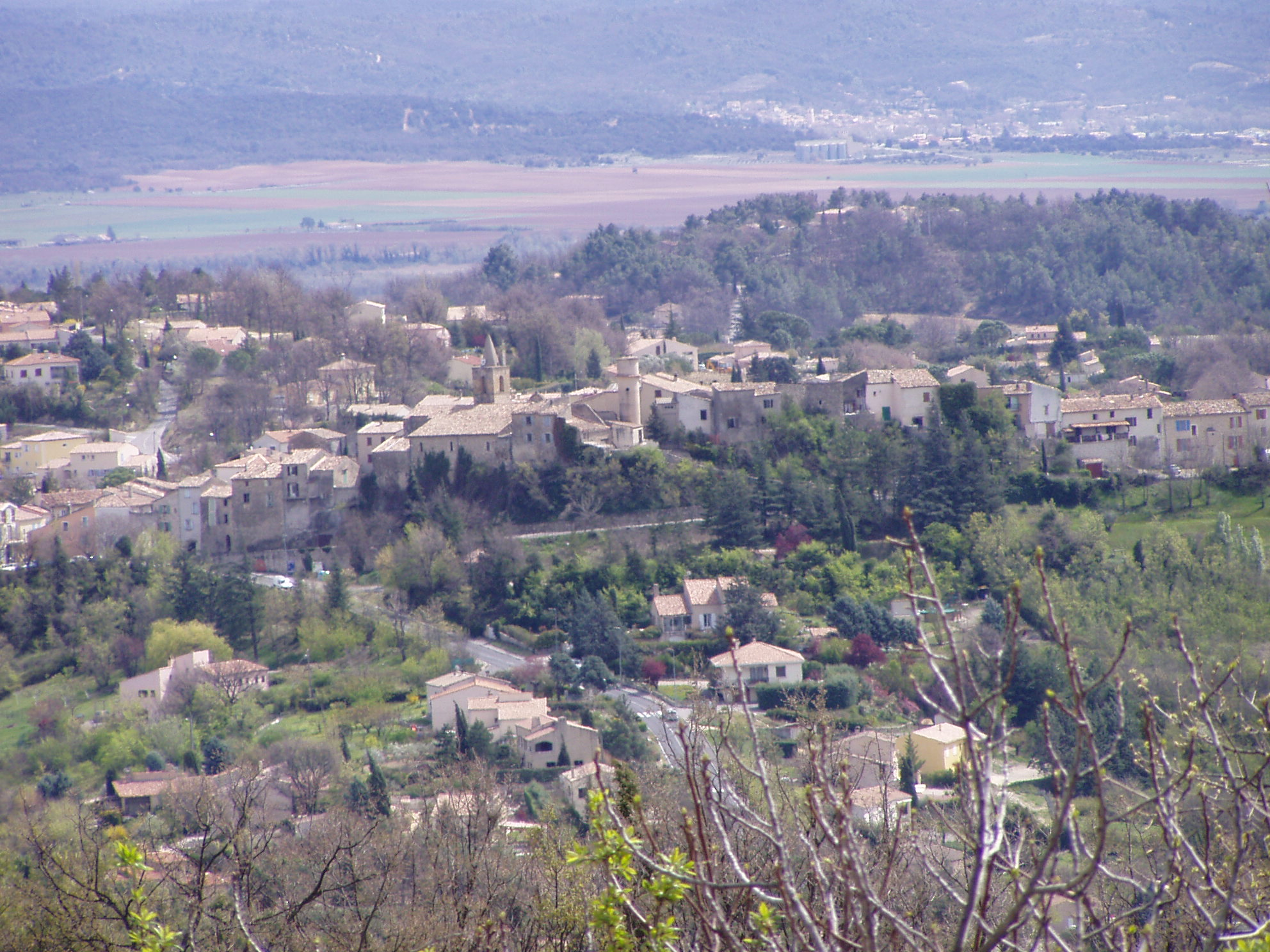 Seen on the town of Pierrevert